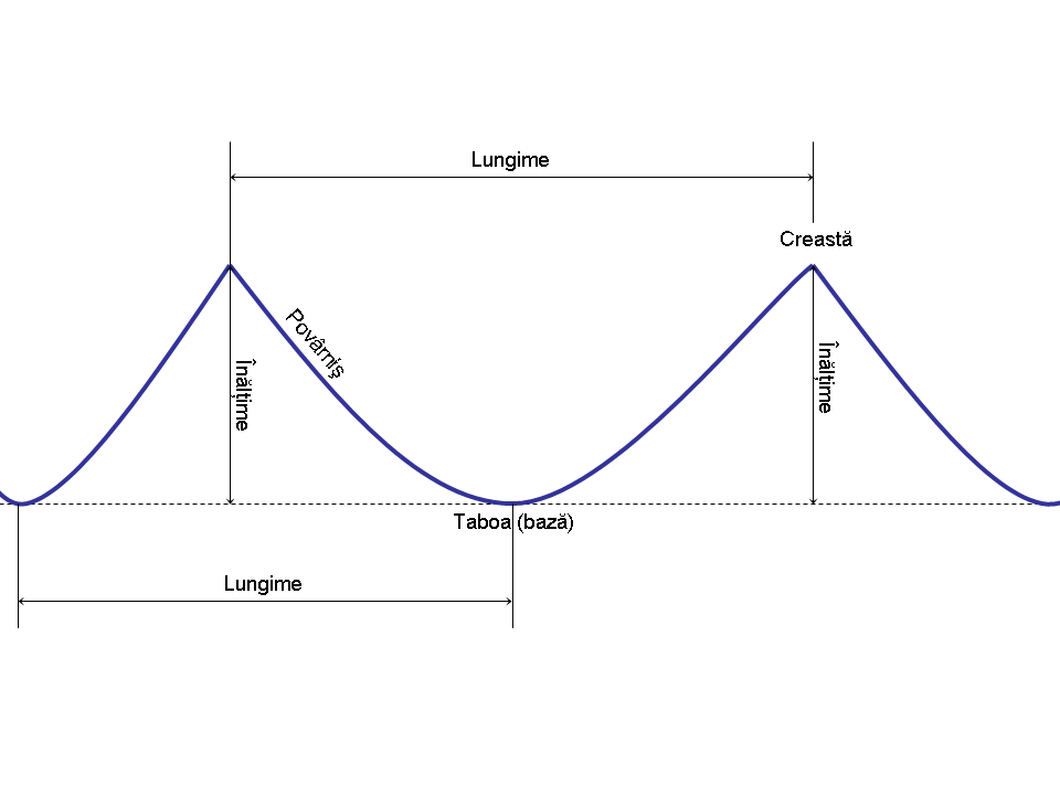 A scheme about the wave's elements - in Romanian language